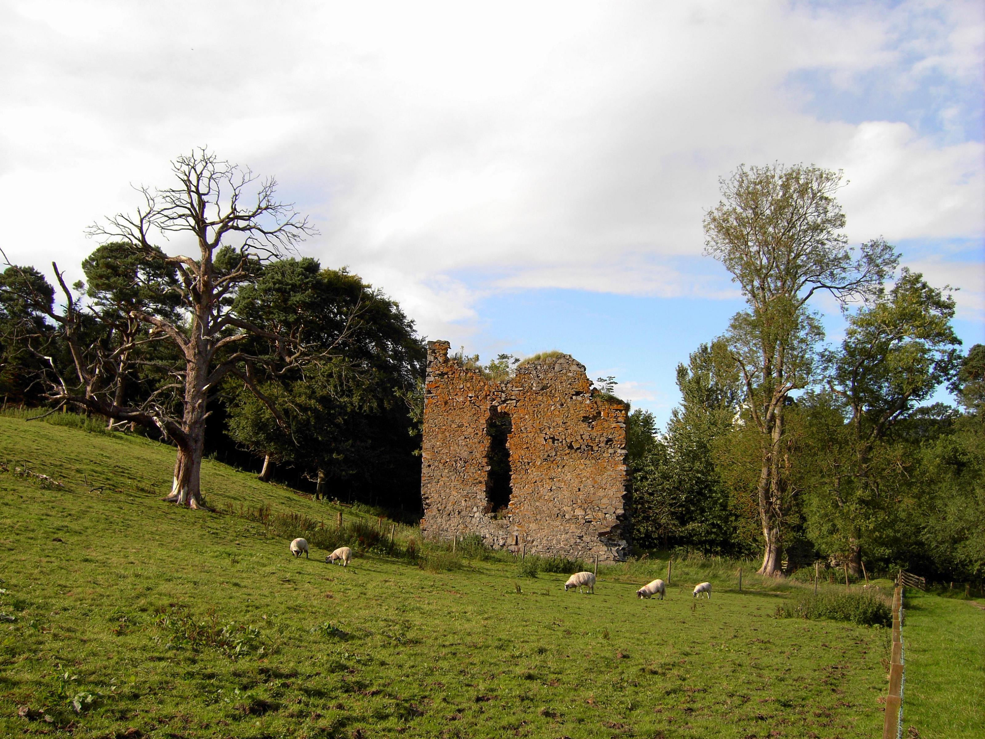 south view, and location